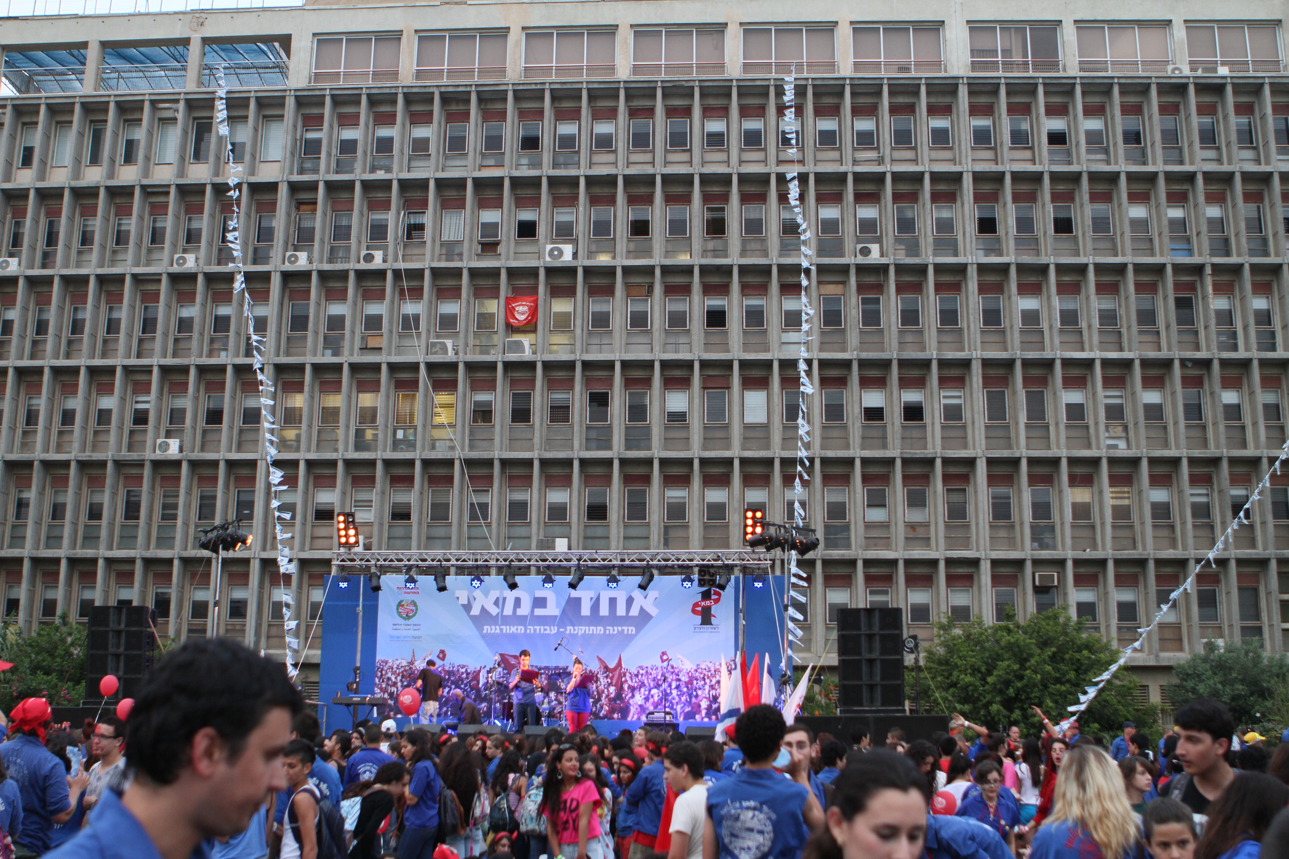 HHistadrurt Building in Tel Aviv